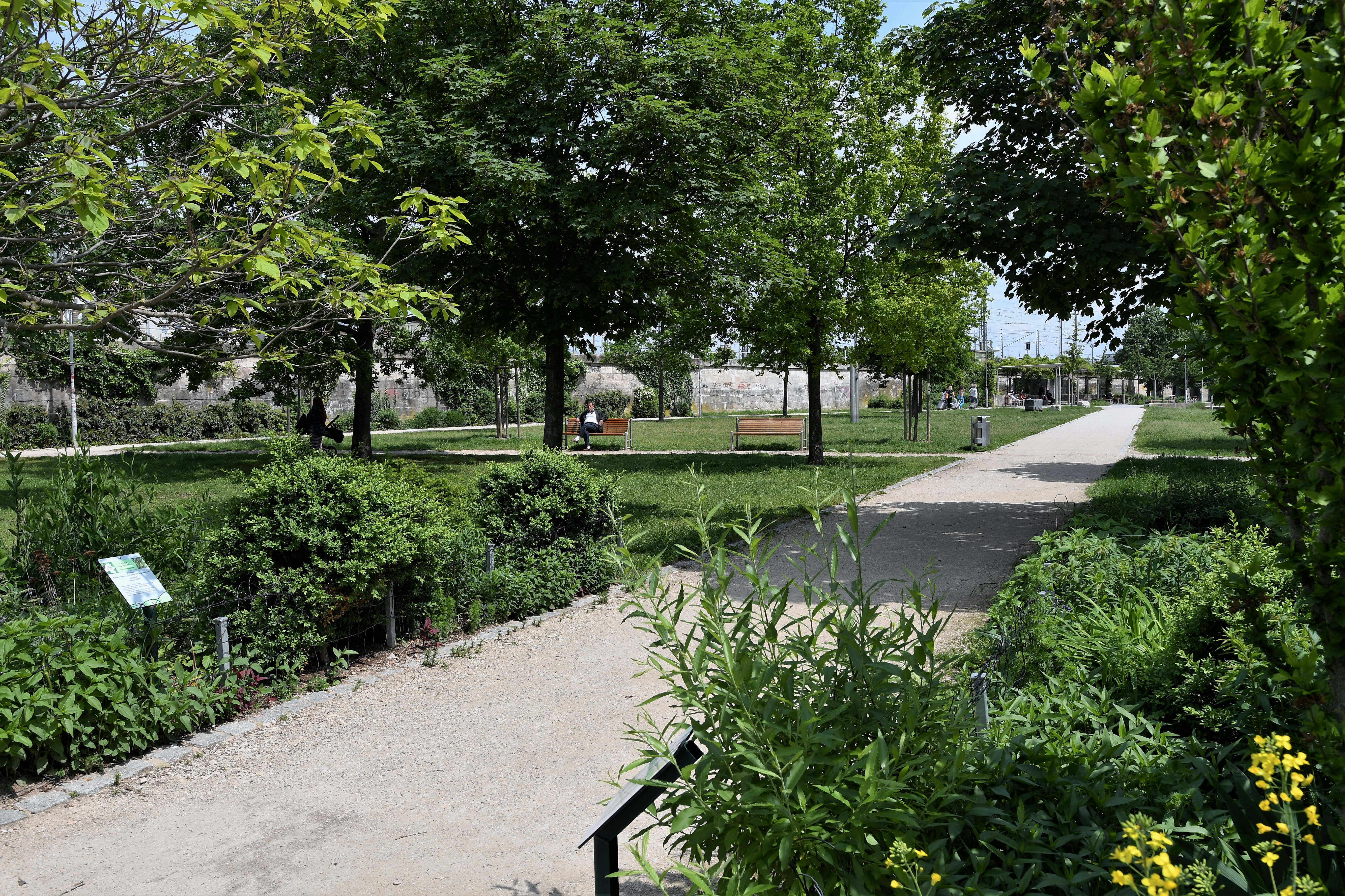 Eastern part of the Südstadtpark in Nuremberg